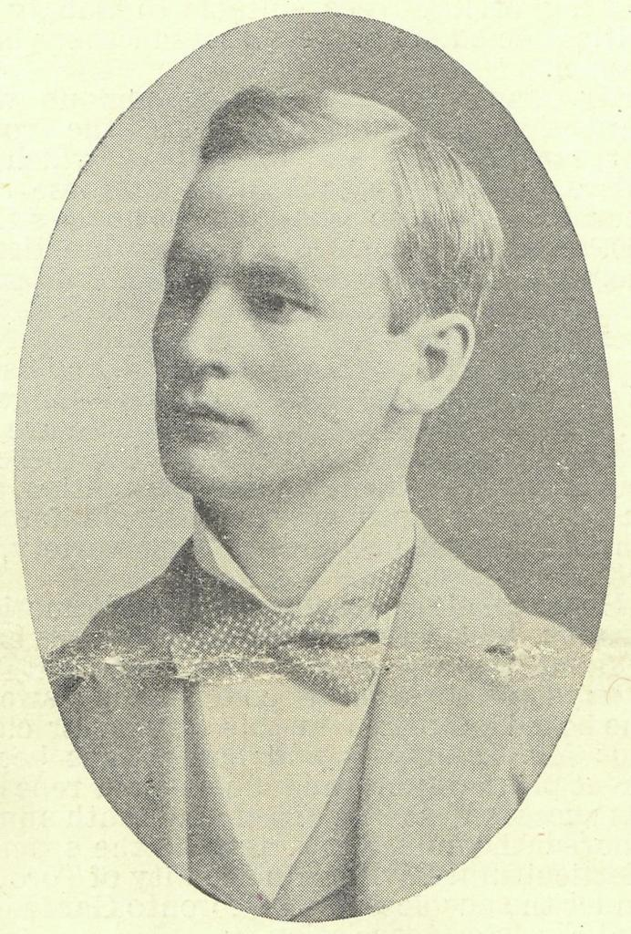 George Weston of Toronto, Canada. A baker, businessperson and municipal councillor.